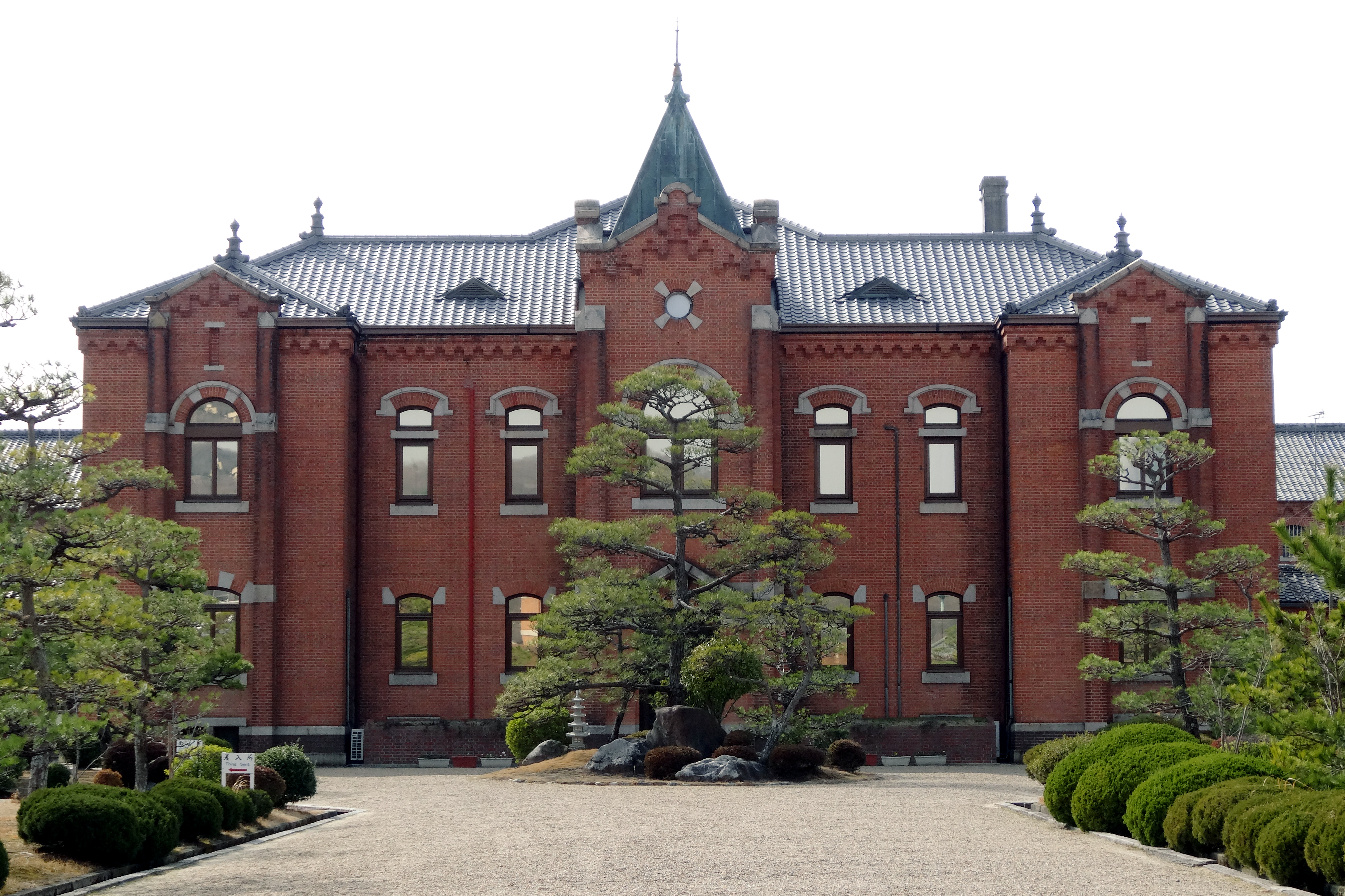 Nara Juvenile Prison in Nara, Nara prefecture, Japan.